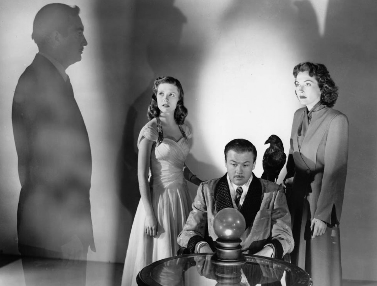 Left to right: Donald Curtis, Cathy O'Donnell, Turhan Bey, and Lynn Bari in The Amazing Mr. X (1948) - publicity still